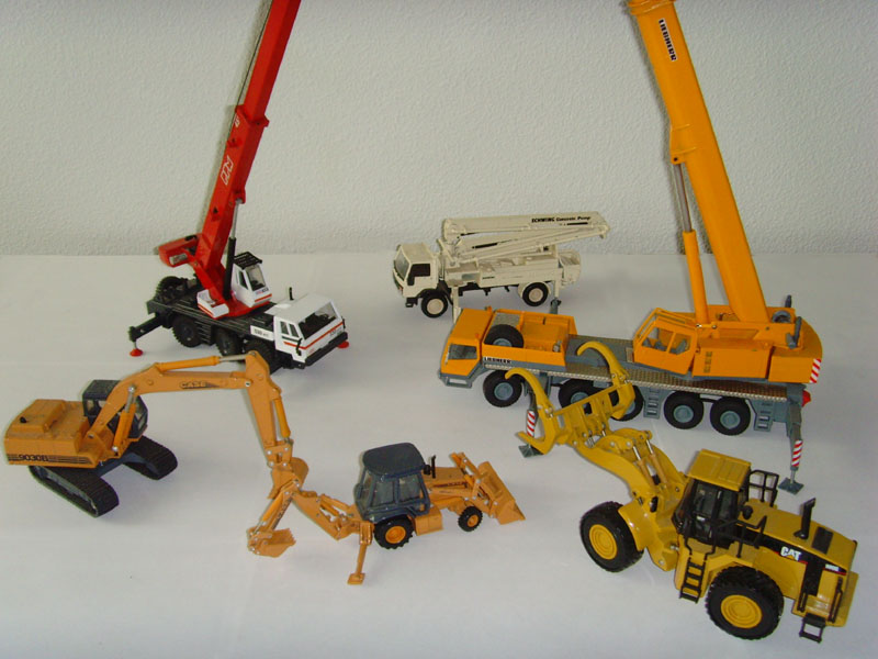 Diecast model construction vehicles from various manufacturers photo by Mike Chapman